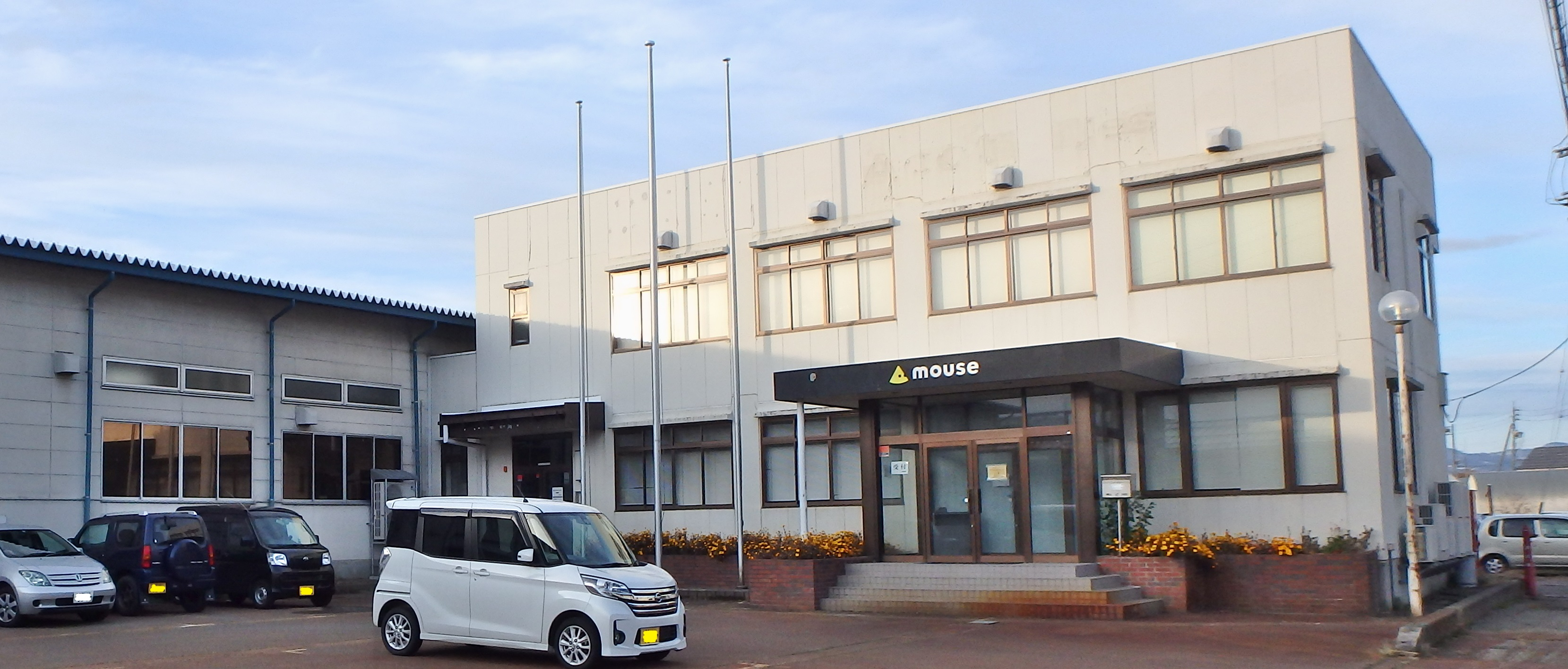 Iiyama office of Mouse Computer Co.,Ltd., Nagano prefecture,Japan